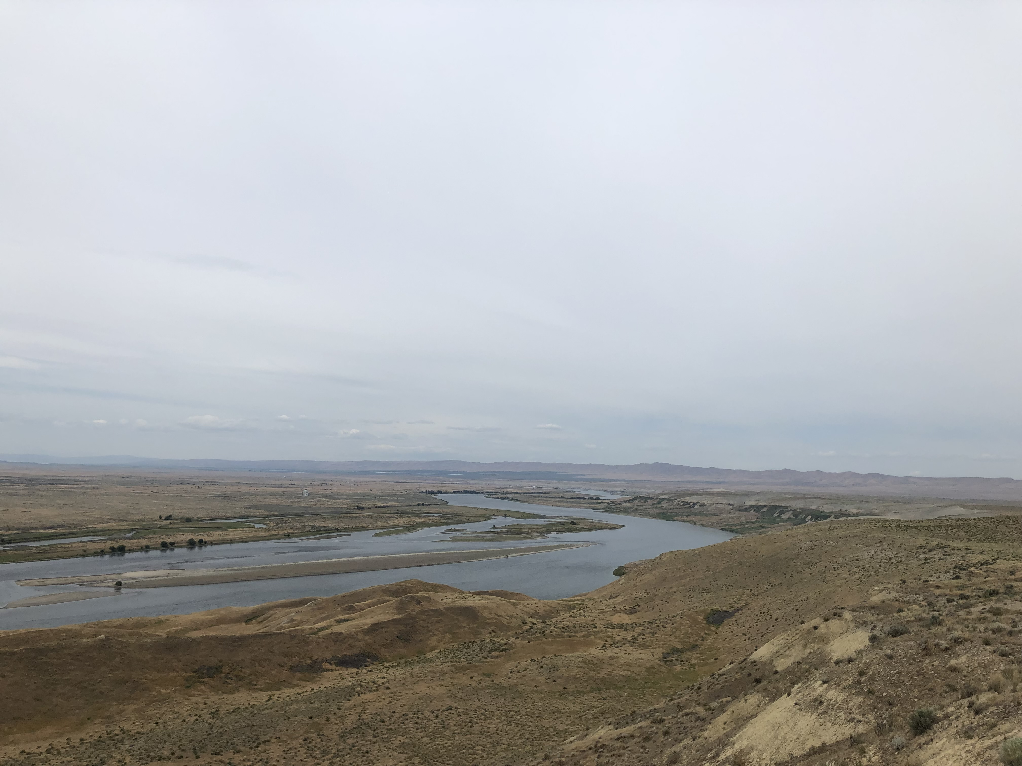 The Columbia River at the Hanford Reach from the top of White Bluffs north of the Tri-Cities in Washington.